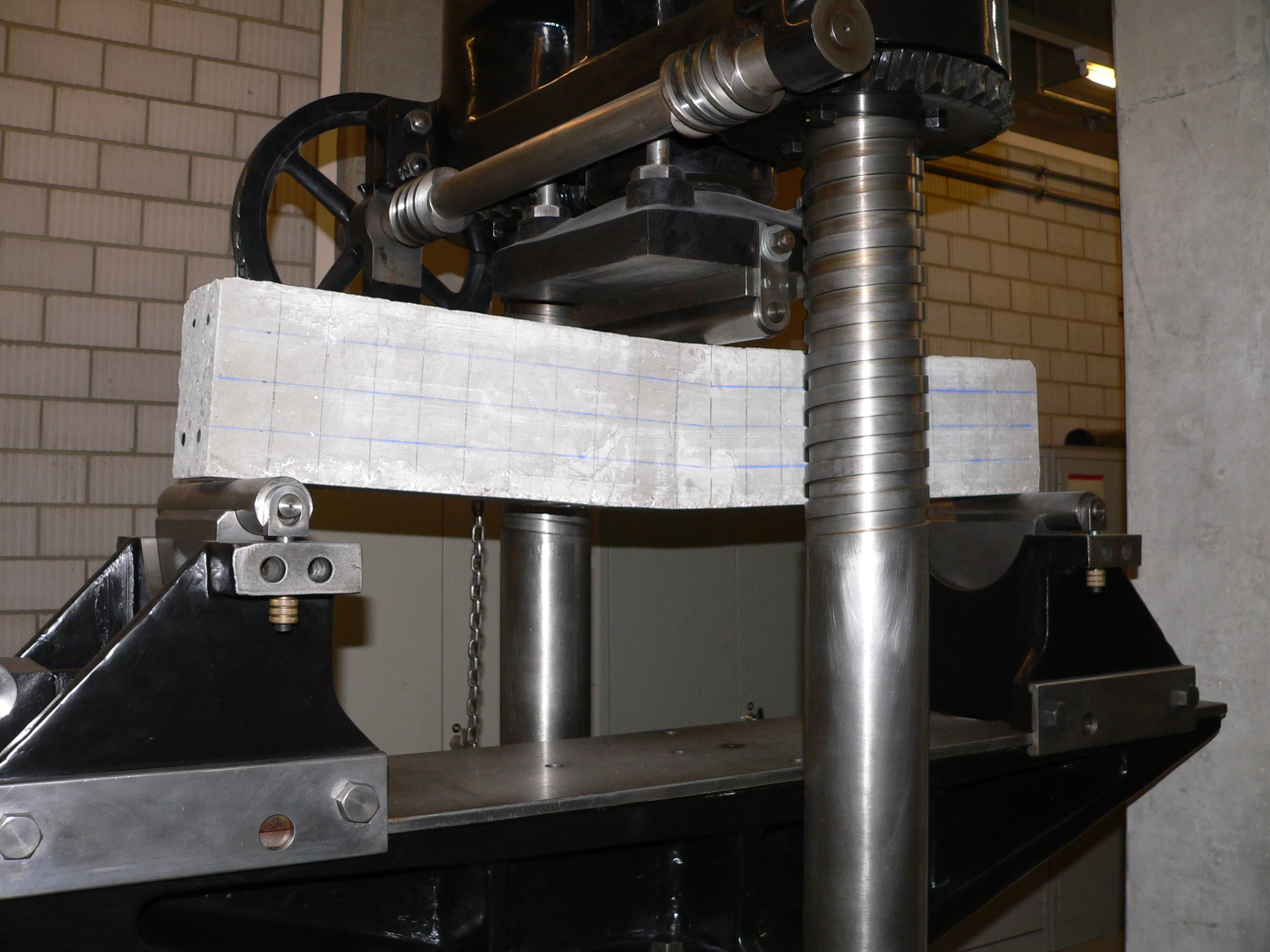 A testing machine performing a bending test of a concrete beam.